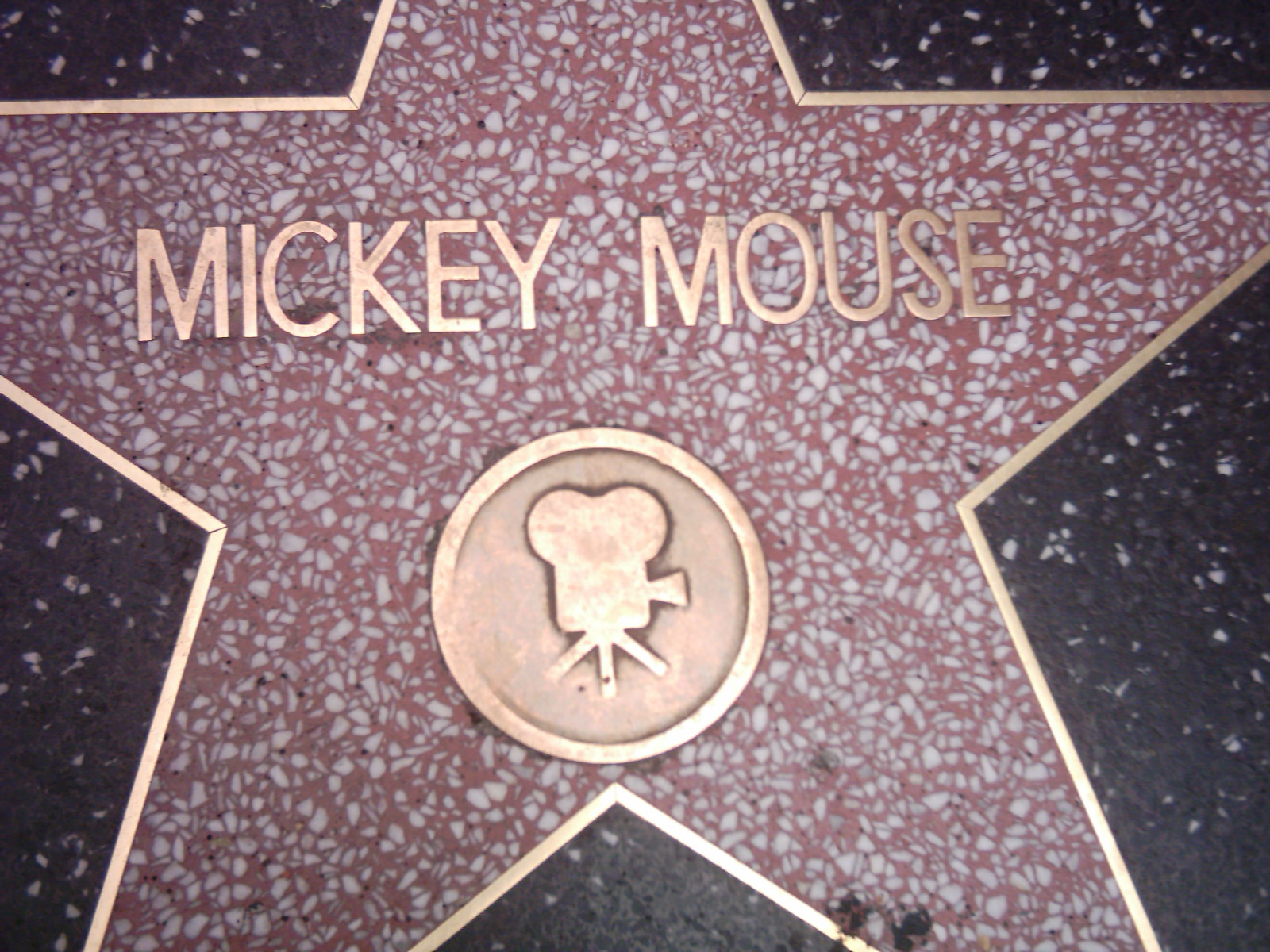 Mickey Mouse star in Walk of Fame